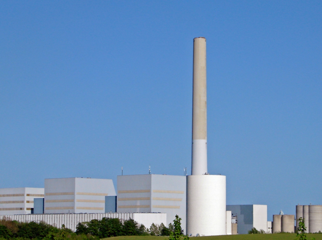 Studstrup Power Station near Århus in Denmark